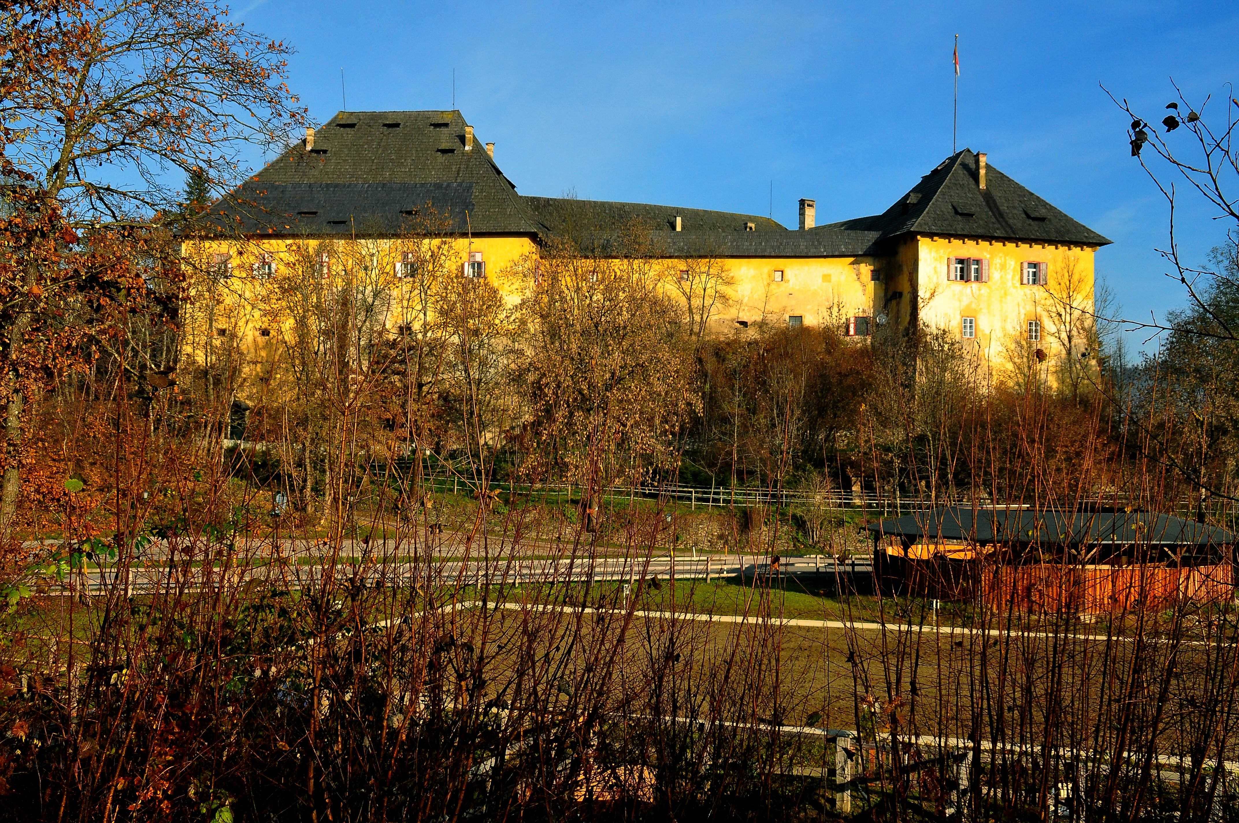 View from the south at the castle “Hallegg” in the 14th district “Wölfnitz” of the Carinthian capital Klagenfurt on the Lake Woerth, Carinthia, Austria